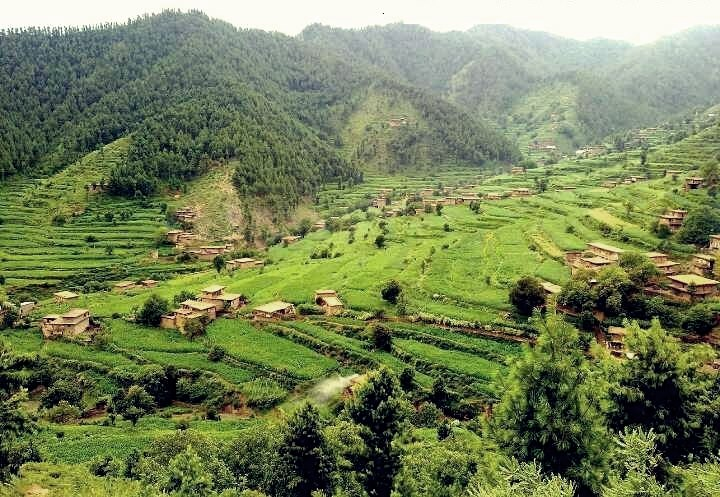 Pakistan